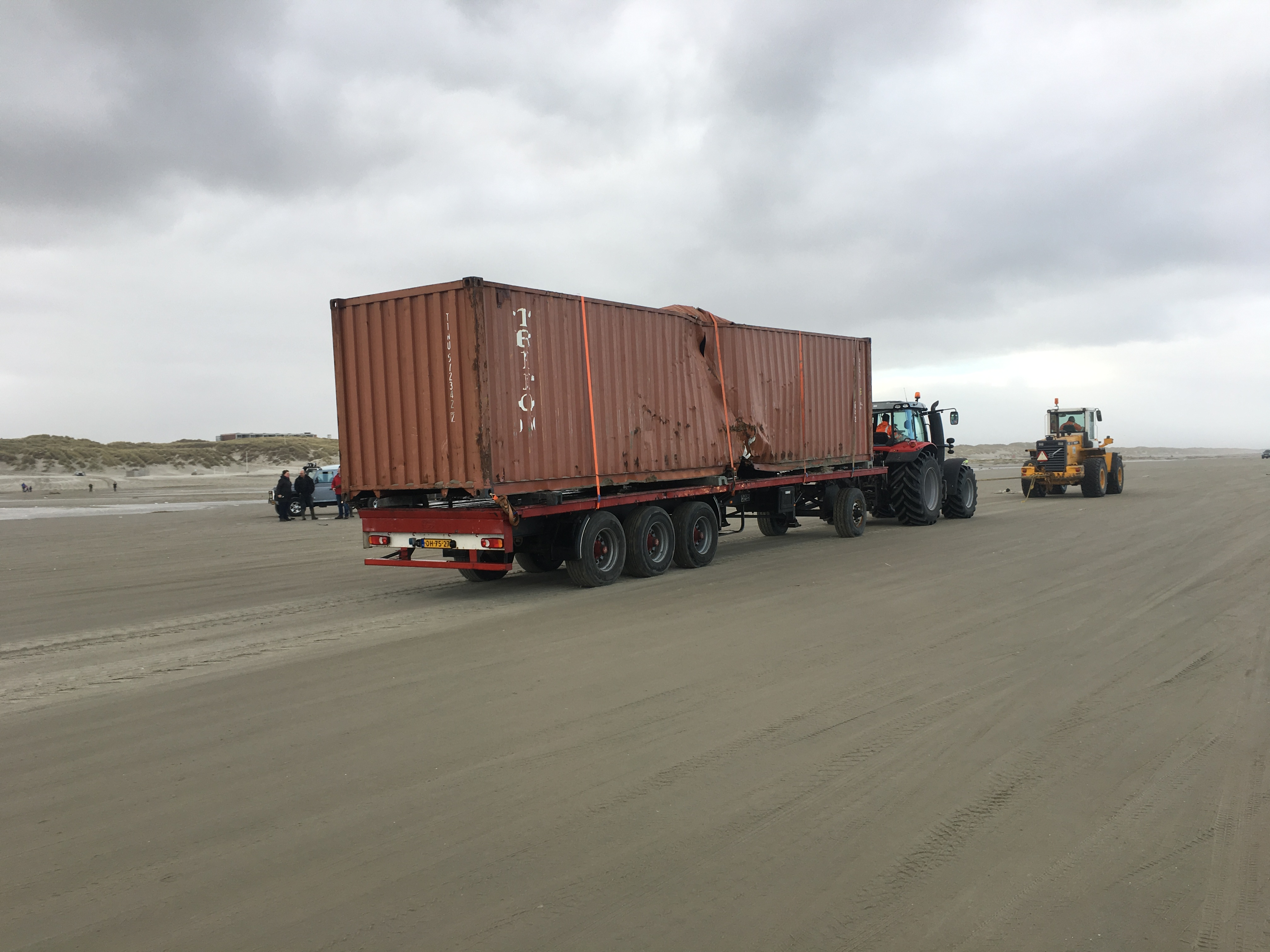 During the night between 1st and 2nd January Panamanian-flagged cargo ship MSC Zoe lost 281 containers in the Noordzee. A total of 25 containers washed up the Dutch islands of Vlieland, Terschelling, Ameland and Schiermonnikoog and the Wadden Sea area as a bigger area. Residents, tourist and officials are cleaning up the mess. 222 containers were located on the bottom of the Noordzee, 10 on different locations. Photo's by Ritzo ten Cate: During the night between 1st and 2nd January Panamanian-flagged cargo ship MSC Zoe lost 281 containers in the Noordzee. A total of 25 containers washed up the Dutch islands of Vlieland, Terschelling, Ameland and Schiermonnikoog and the Wadden Sea area as a bigger area. Residents, tourist and officials are cleaning up the mess. 222 containers were located on the bottom of the Noordzee, 10 on different locations. Photo's by Ritzo ten Cate